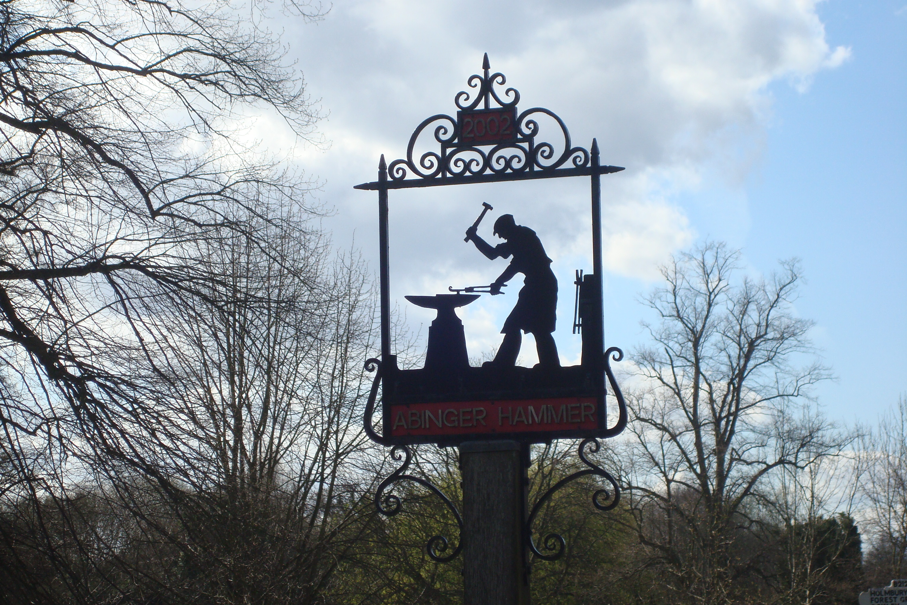 Abinger Hammer was a focus for forges. S Knights, my photo, April 2009